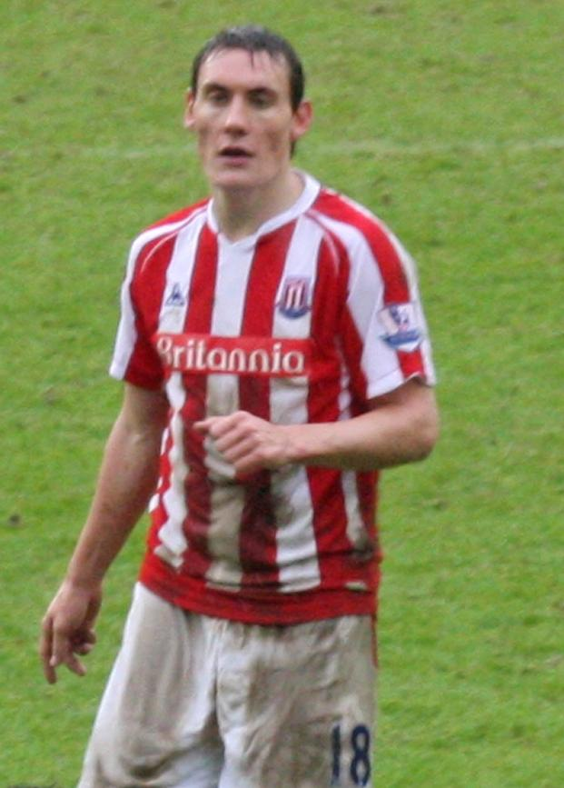 Dean Whitehead at a match between Stoke City F.C. and Arsenal F.C.